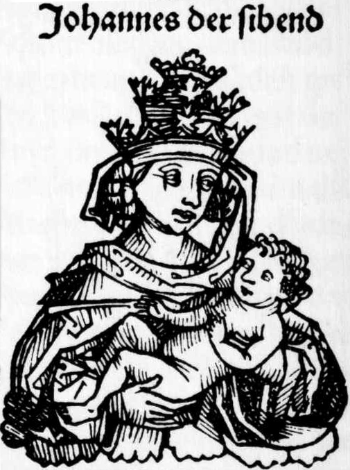 Pope Joan in the Nuremberg Chronicles